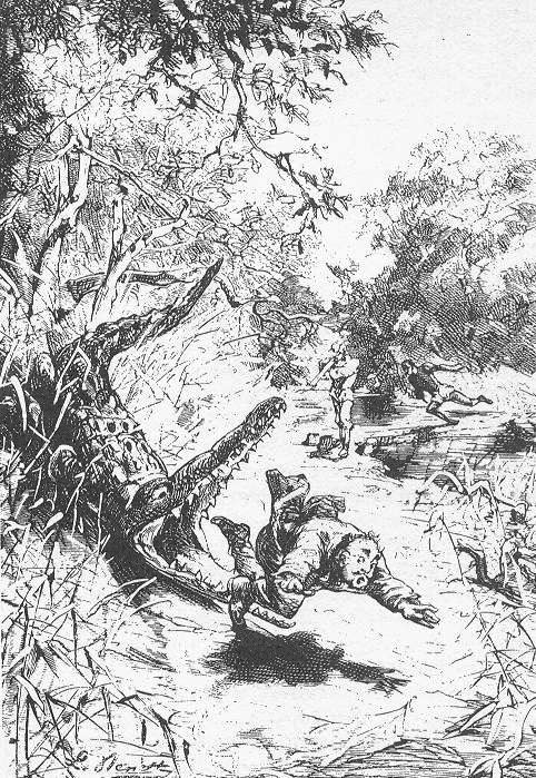 An illustration from Jules Verne's novel "Godfrey Morgan: A Californian Mystery" (also published as "Godfrey Morgan, School for Robinsons", and "School for Crusoes", 1882) drawn by Léon Benett.